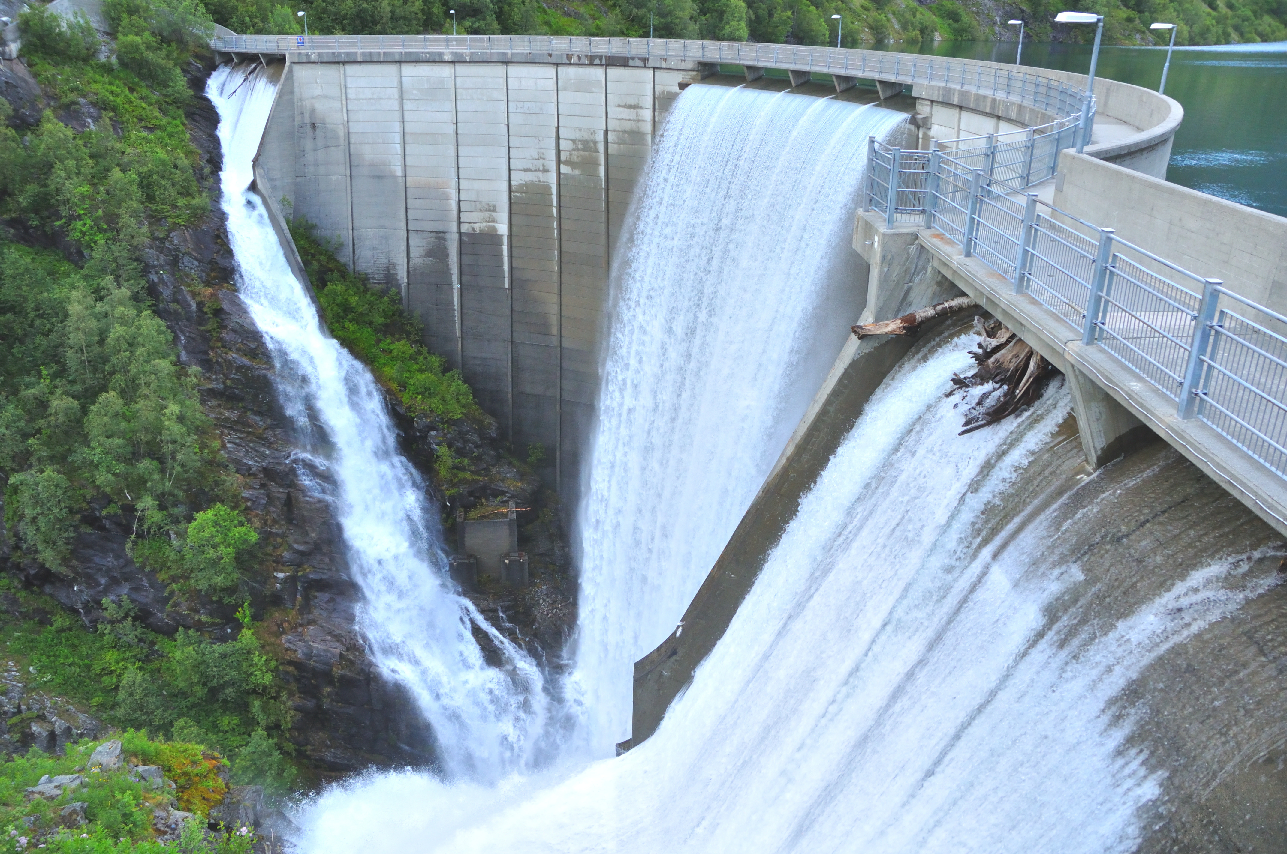 Zakarias reservoir in Tafjord, overflow july 2019